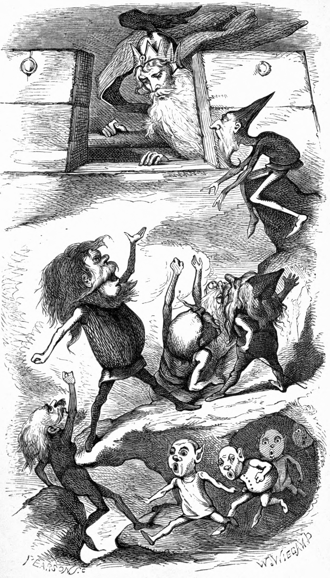 King Olaf and the Little People (the title in the list of illustrations). In the book this illustrates a story about a race to Norway between Olaf and his brother Harald Haardrade. The little people are called elves in the story.